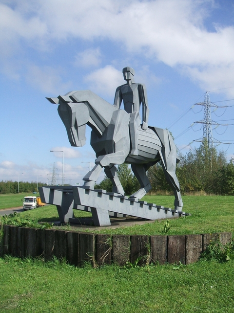 Horseman on the Black Country Route. Looking towards Walsall on the Black Country Route. This is one of a number of statues on the Lunt.